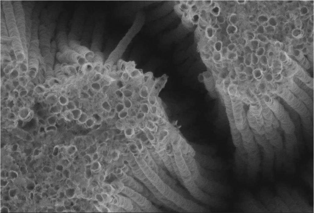 An electron microscope image of electrochemically grown TiO2 nanotubes. 10,000 times smaller than the width of a human hair, the tubes are filled with organic polymer in a new technique for "growing" solar cells with the potential to be cheaper than current solar cells.